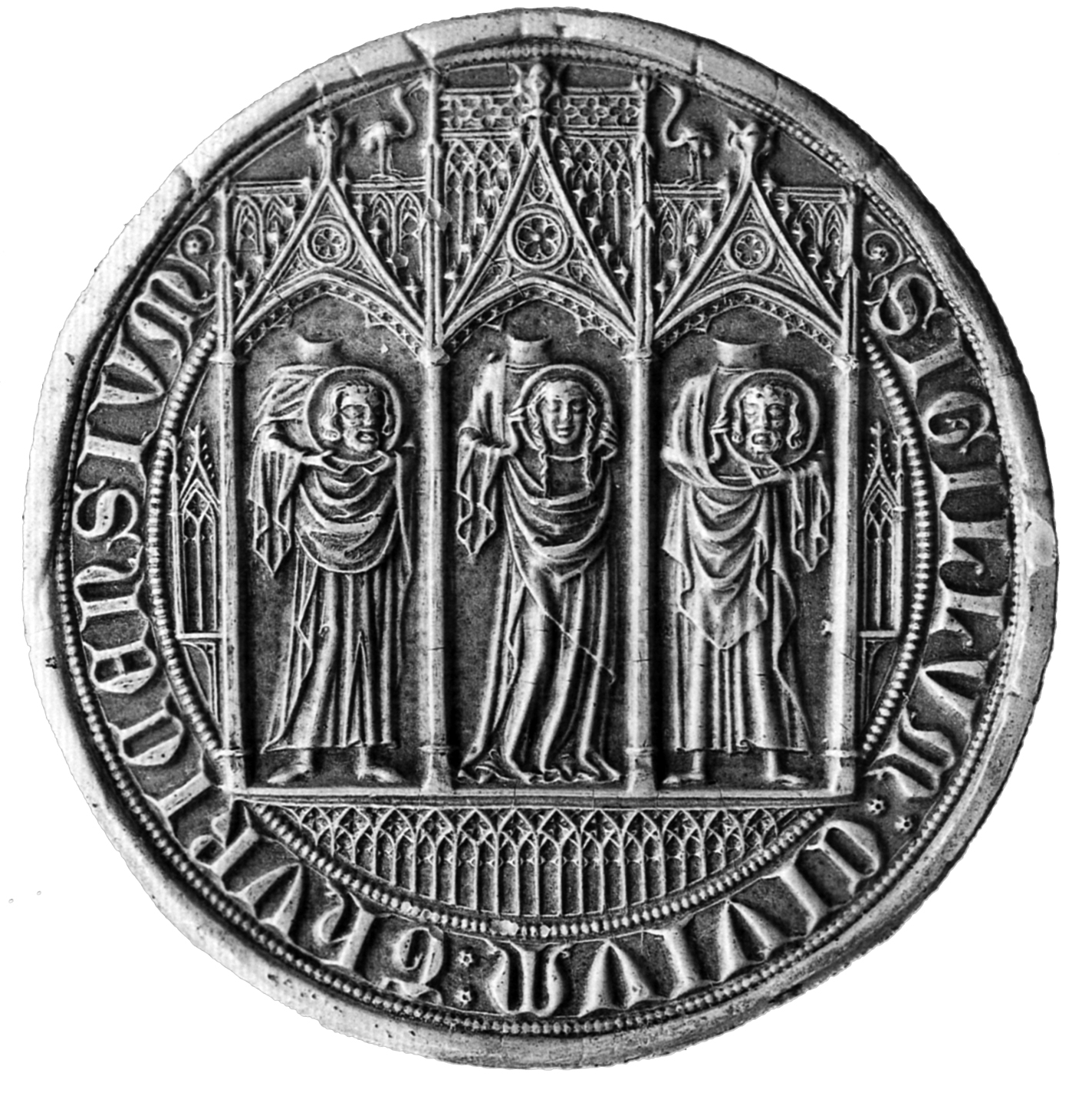 Seal of the city of Zürich 1347